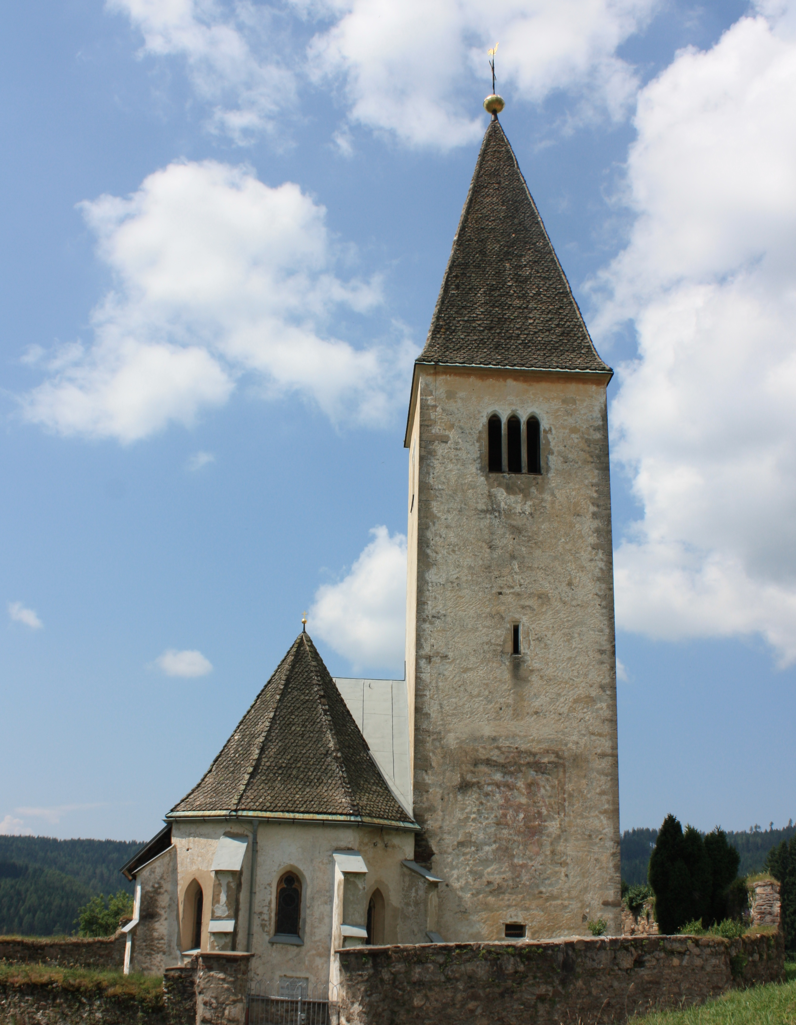 Parish church Saint Michael in the community of Griffen